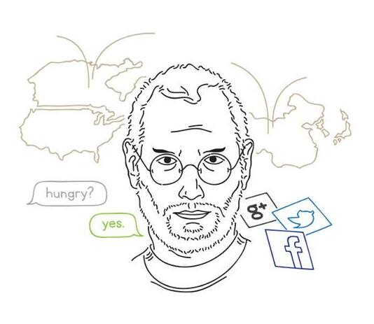 Generation Z